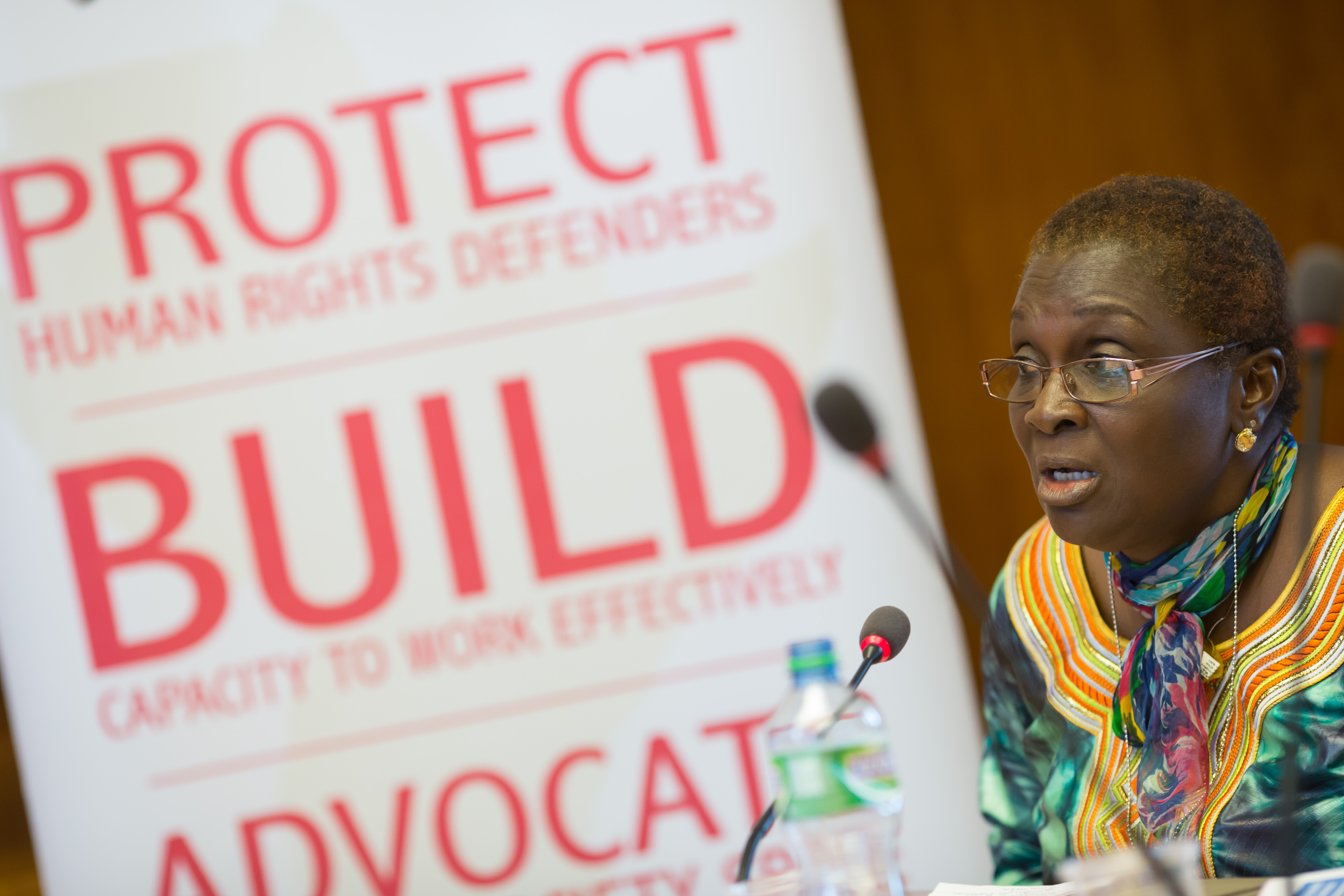 The African Commission on Human and People's Rights Special Rapporteur on Human Rights Defenders, Reine Alapini-Gansou, speaks during the Africa side event on June 16